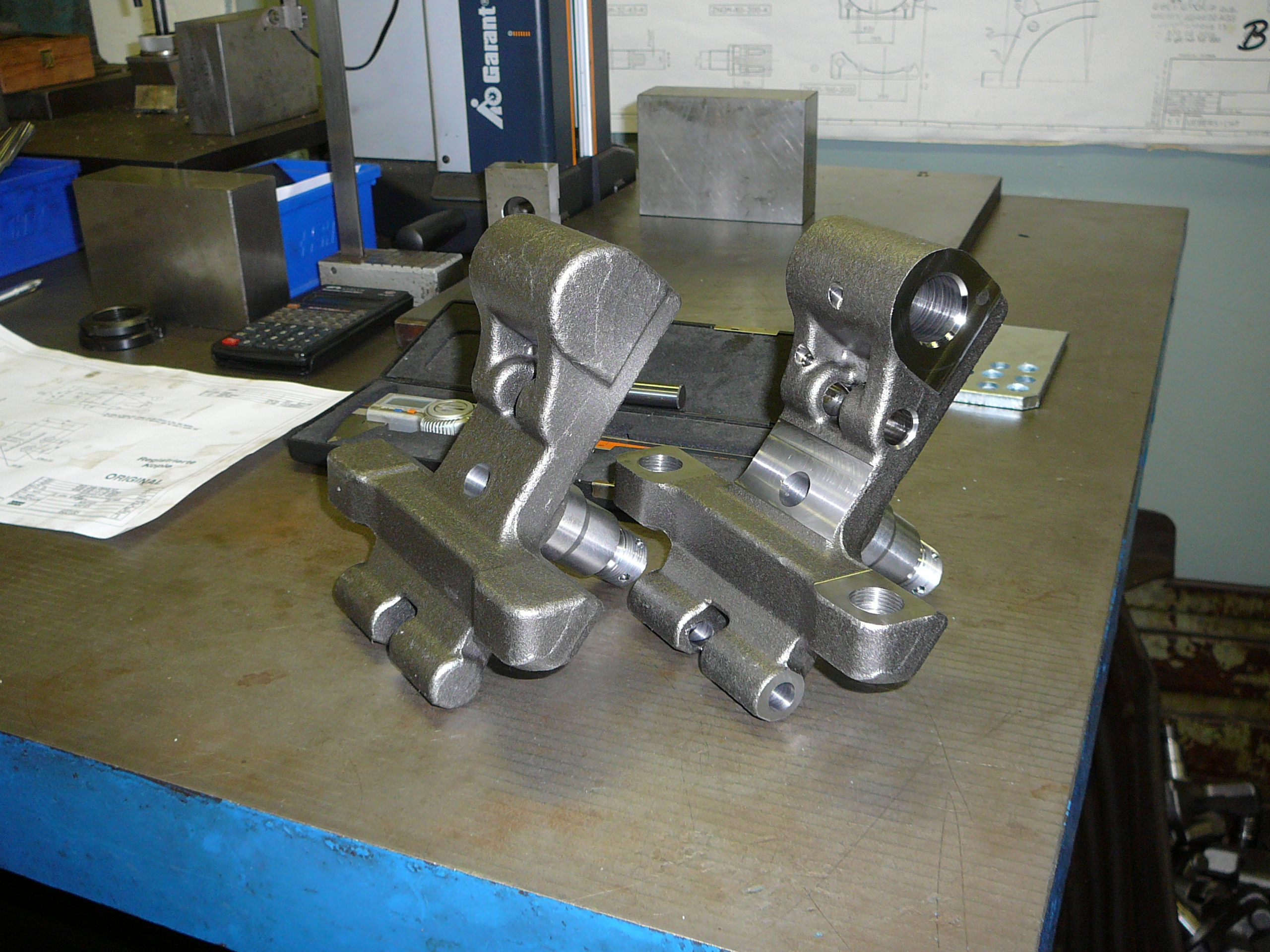 Two forged pieces machined by MCFH 40 CNC in pallete, locksmithery Oldřich Vaňhara, Fryšták